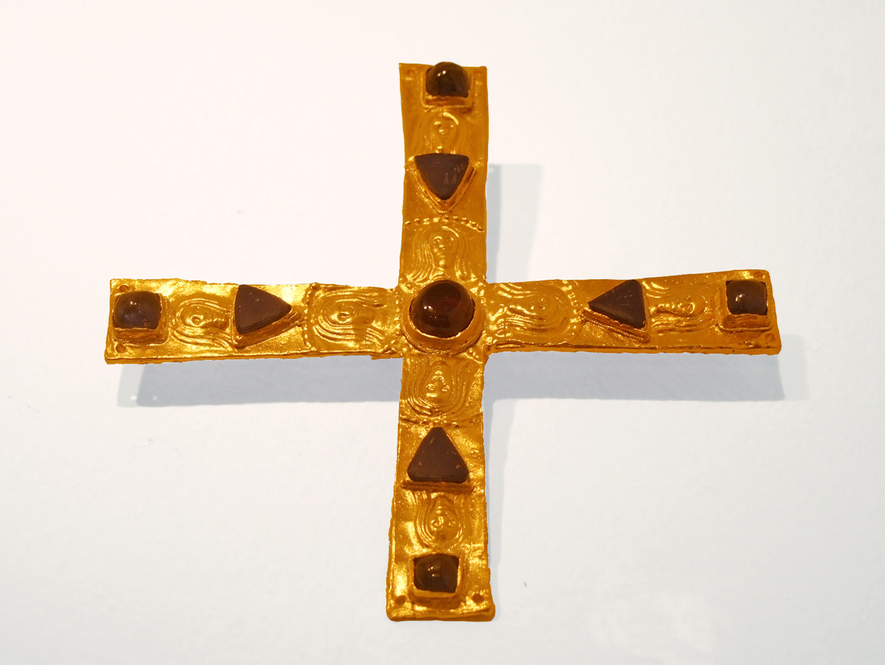 Cross from the so-called Grave of Duke Gisulf, cemetery of Cella - San Giovanni Cividale del Friuli, Province Udine, Region Friuli-Venèzia-Giùlia, Italy The deceased lay in a wooden coffin which in turn lay within a stone sarcophagus. The inscription CISVL is engraved on one of the top surfaces of the sarcophagus cover. Following the discovery of the burial, a dispute arose about the authenticity of the inscription. Today we are generally inclined to regard it as a forgery of the 19th century, intended to bolster the attribution of the burial to Gisulf, the first Lombard duke of Friuli. Regardless, the grave goods of this burial are among the most splendid to have been found in Cividale. Recent anthropological investigations of the preserved bone fragments have enabled an attribution to an adult male of considerable stature without any indications of an advanced age. Photographed while on display from 22 August 2008 to 11 January 2009 in the exhibition "Die Langobarden. Das Ende der Völkerwanderung" at the Rheinisches LandesMuseum Bonn. On loan from the Museo archeologico nazionale di Cividale del Friuli.